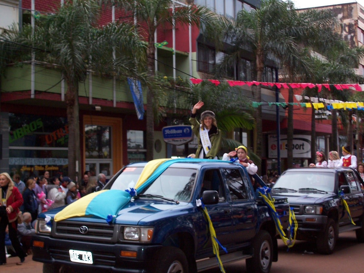 Natalia Kornowski, queen of the Ukrainian colectivity, during the inaugural parade of XXVI Immigrant's National Festival, in Oberá, Misiones, Argentina.